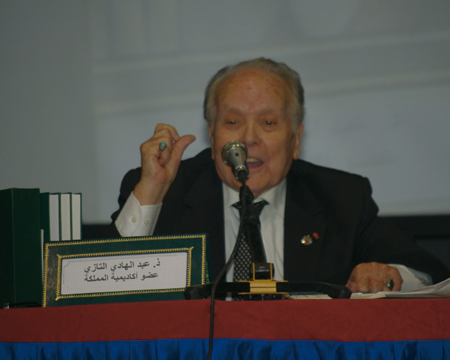 professor Al Tazi